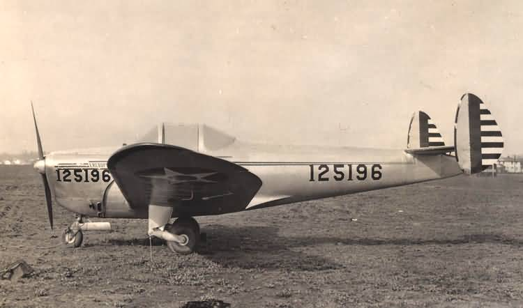 GORDON W. HUBBARD COLLECTION No. 3545. Erco XPQ-13 (41-25196 c/n 110) USAAF Aeroplane Photo Supply (APS) Photo No. 4473